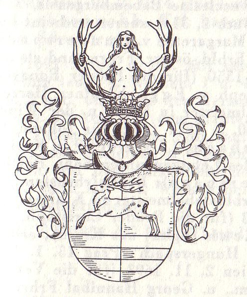 Coat of Arms of the german family von Egidy